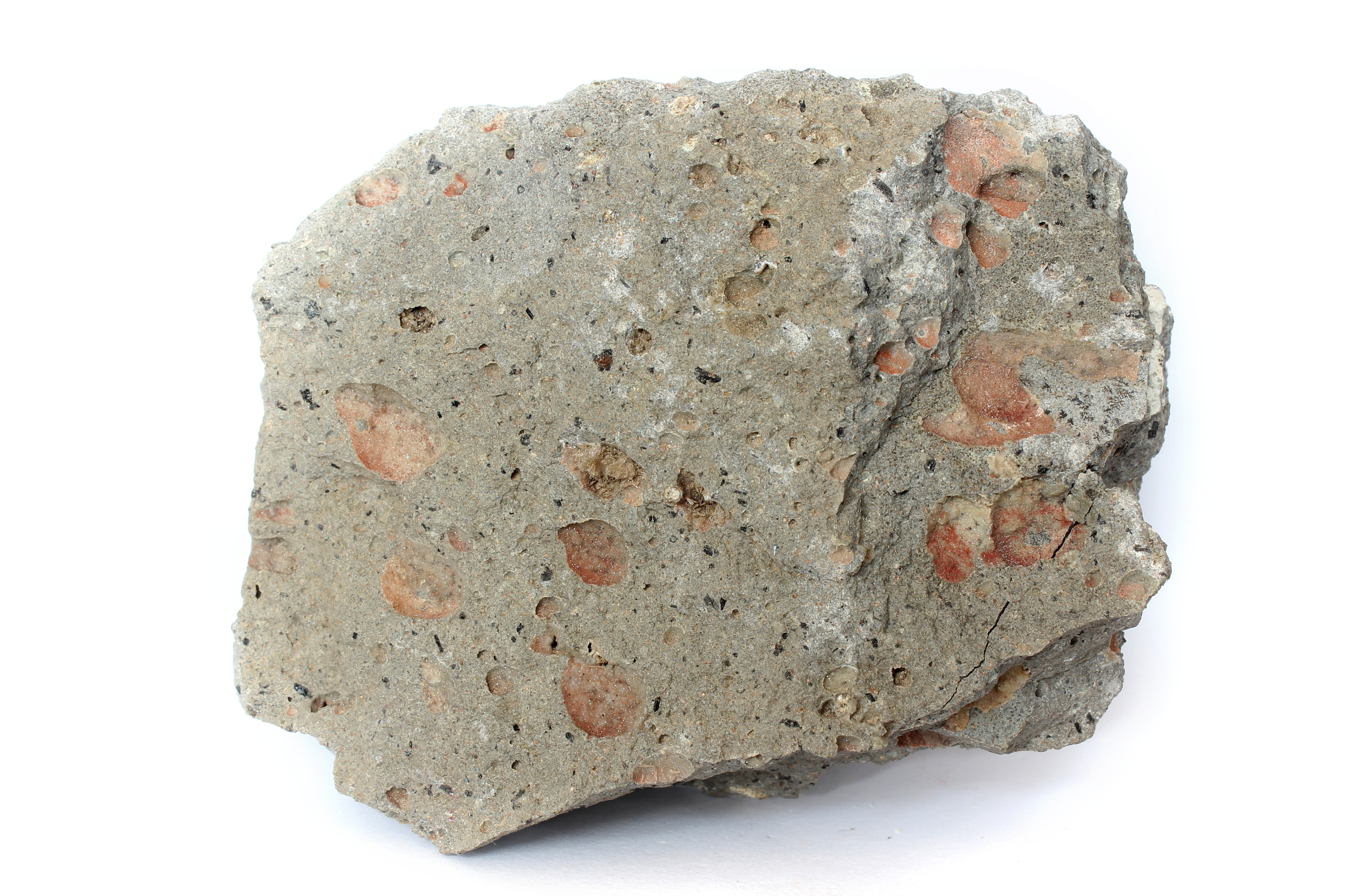 Tephrite - amygdaloidal structure, vesicules are filled with zeoliteis. Locality: Dobranka u Dobrné, Czech republic.Rock sample belongs to Geo collection of author.